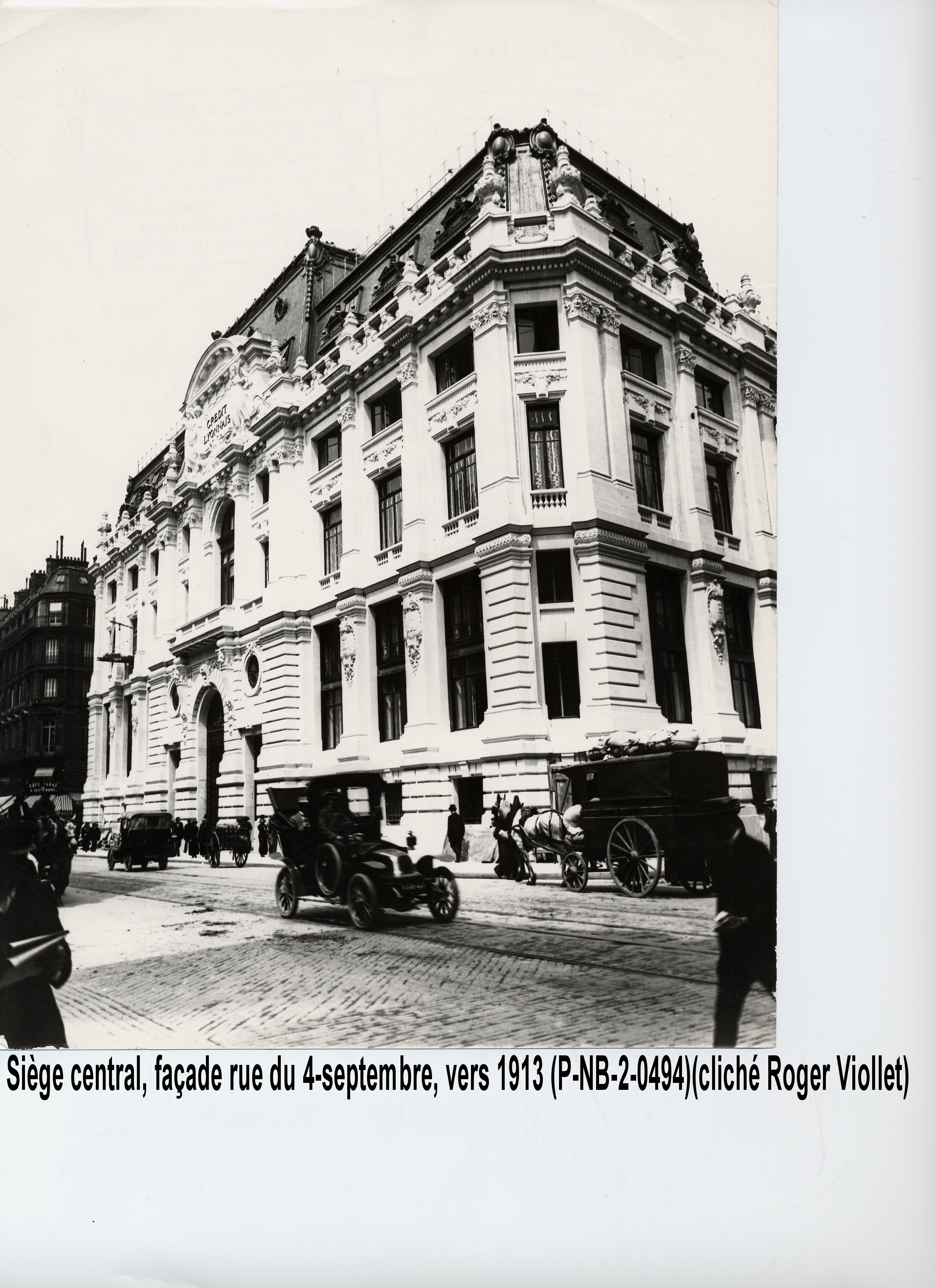 LCL (Credit Lyonnais) headquarters in Paris. Rue du 4 septembre